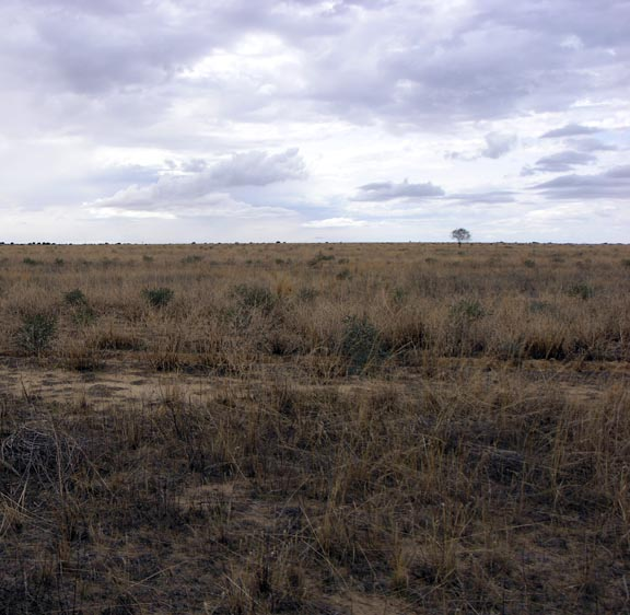 The bush in Merredin, Western Australia.